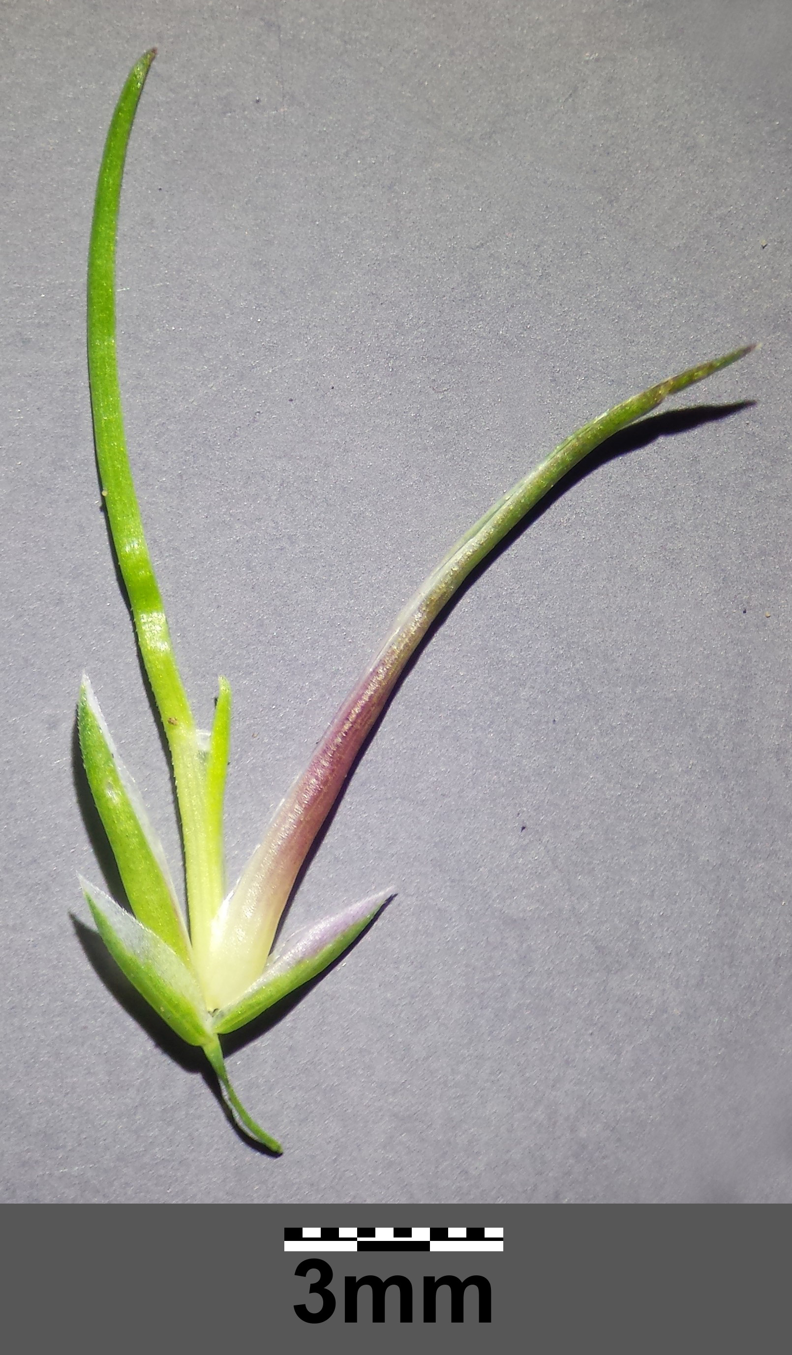 Spikelet Taxonym: Poa bulbosa ss Fischer et al. EfÖLS 2008 ISBN 978-3-85474-187-9 Location: Wasserpark, Vienna-Floridsdorf - ca. 160 m a.s.l. Habitat: dry, ruderal meadows